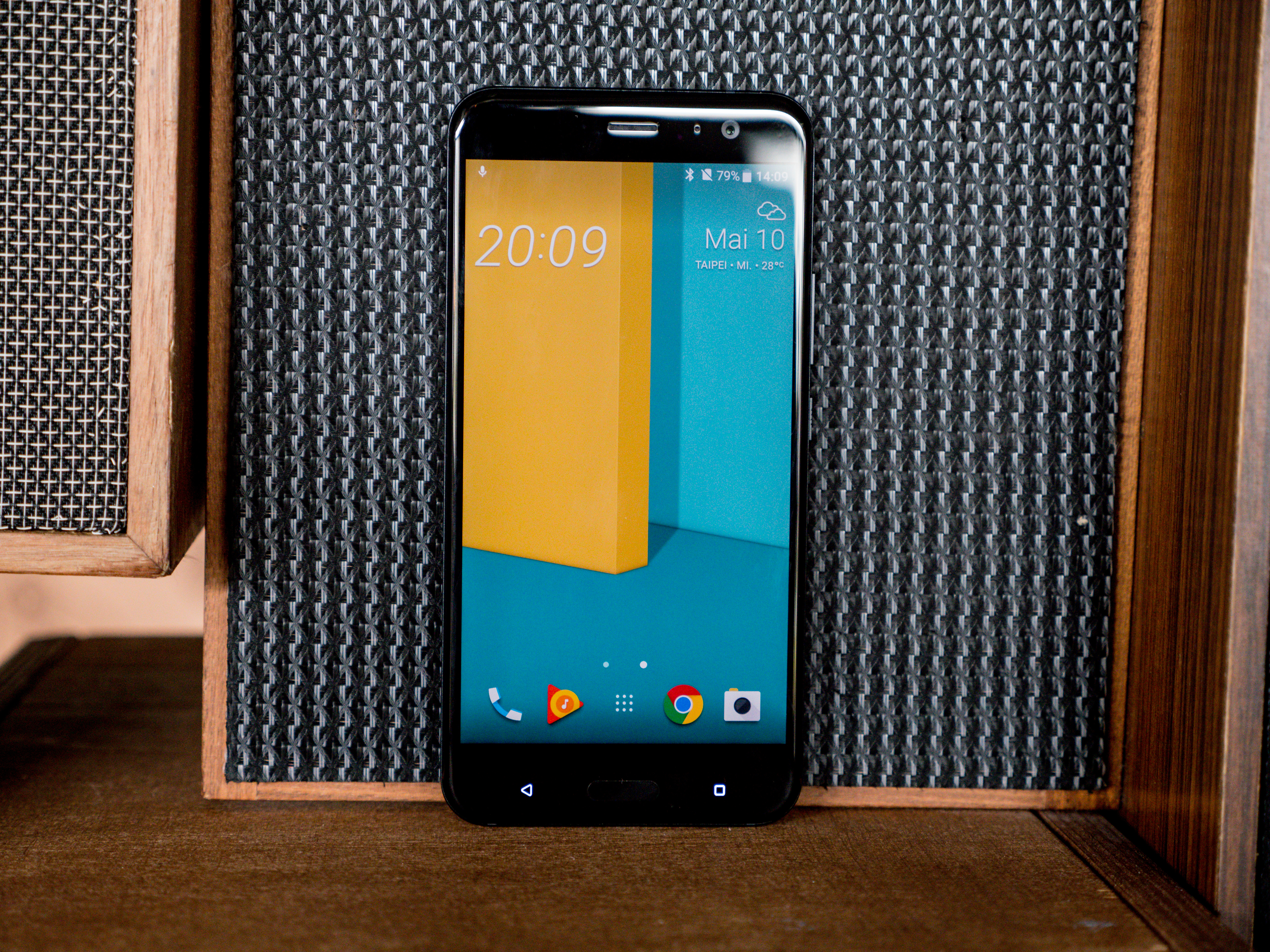 The front side of the HTC U11 Android smartphone.